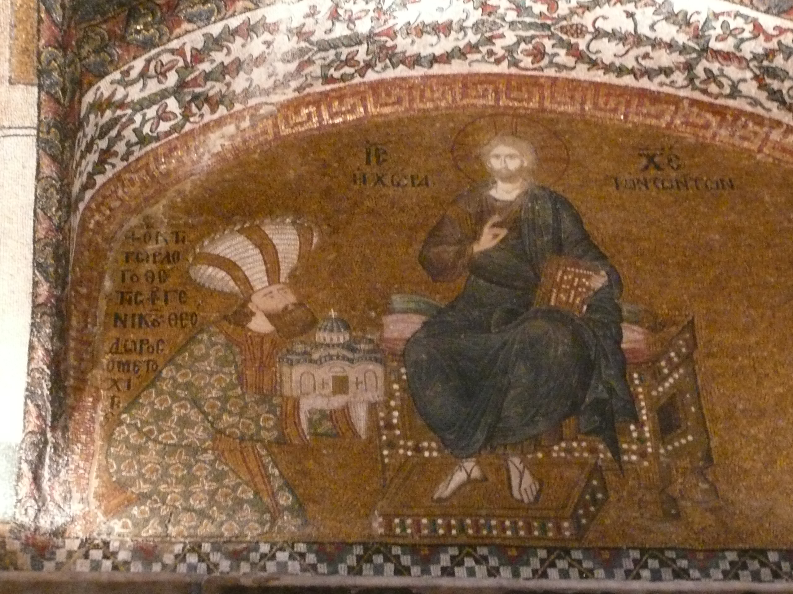 The statesman and patron Theodore Metochites presenting a model of the Chora Church to Christ.